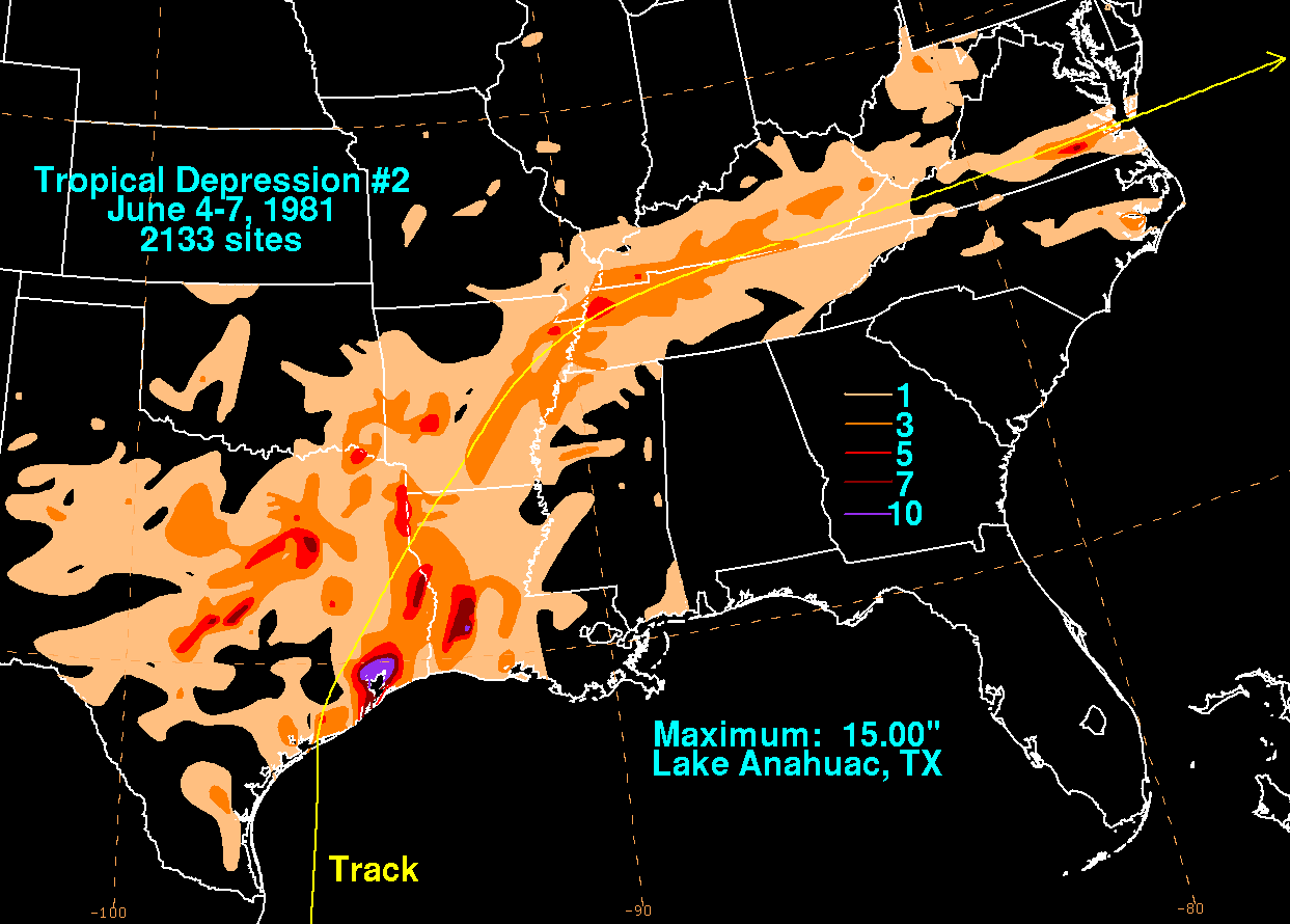 Storm total rainfall map of Tropical Depression Two during June 1981.